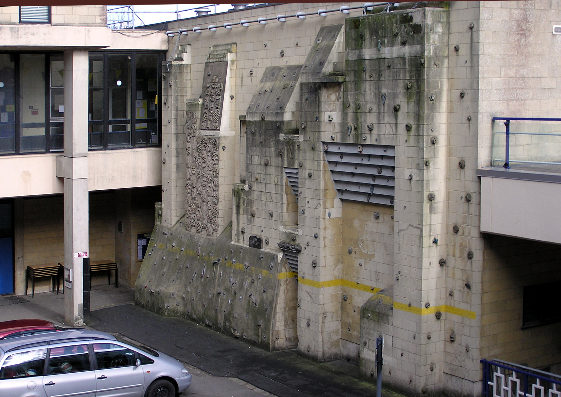 An outdoor climbing wall at the University of Bath, Bath, England. Photographed by Adrian Pingstone on 12th March 2005 and placed in the public domain.